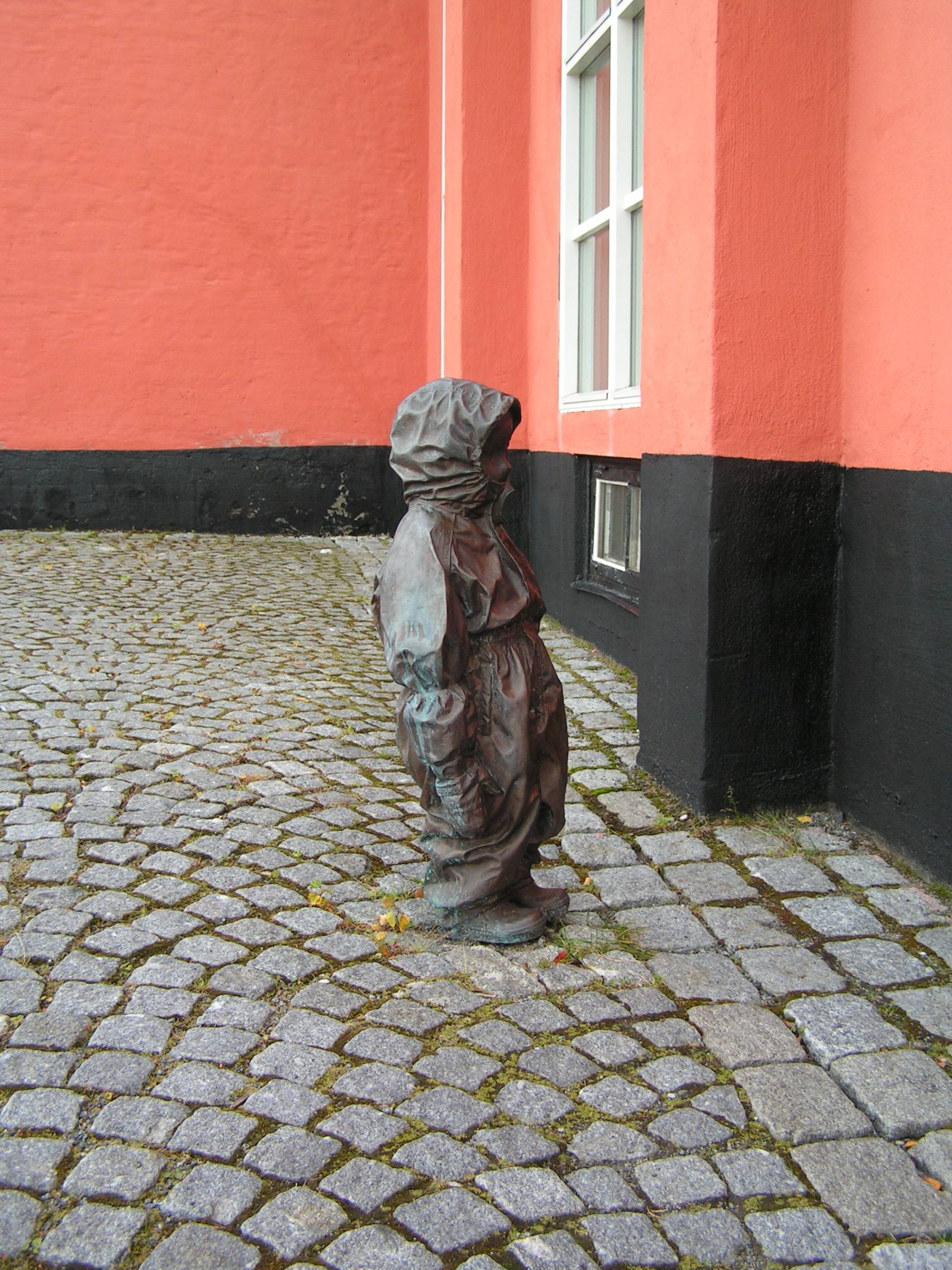 Charlotte Gyllenhammar, "Out", Bronze, 2004. Photo taken at Umedalen sculpture park